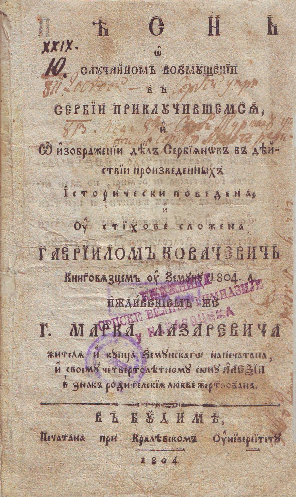 Cover of Pesn o slučajnom vozmušćenii v Serbii priključivšemsja i o izobraženii del Serbianov v dejstvii proizvedenih (1804) by Gavrilo Kovačević. Srpski (latinica): Naslovna strana Pesn o slučajnom vozmušćenii v Serbii priključivšemsja i o izobraženii del Serbianov v dejstvii proizvedenih (1804) Gavrila Kovačevića.